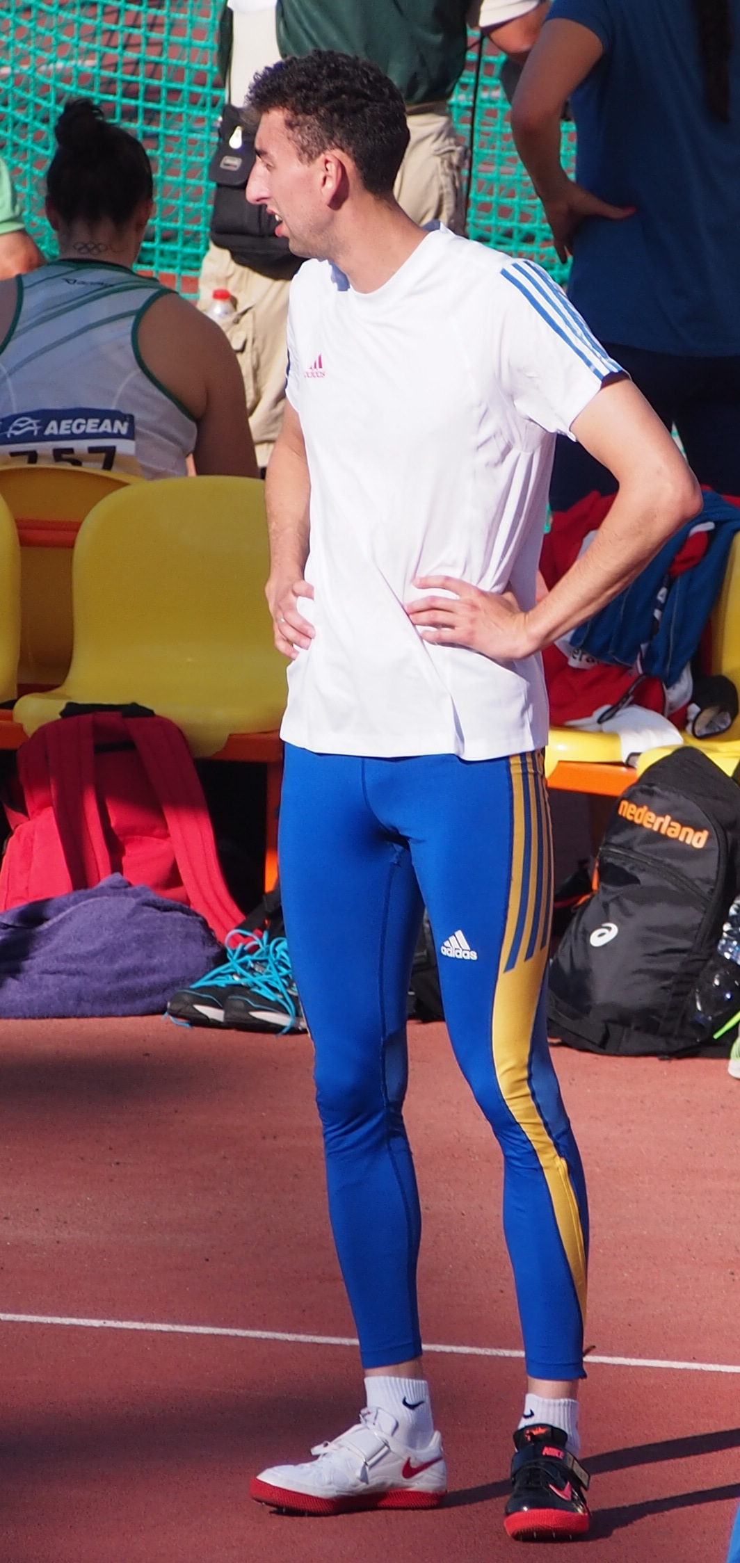 Mihai Donisan, during warming-up for the high jump event of the 2015 European Team Championships First League.